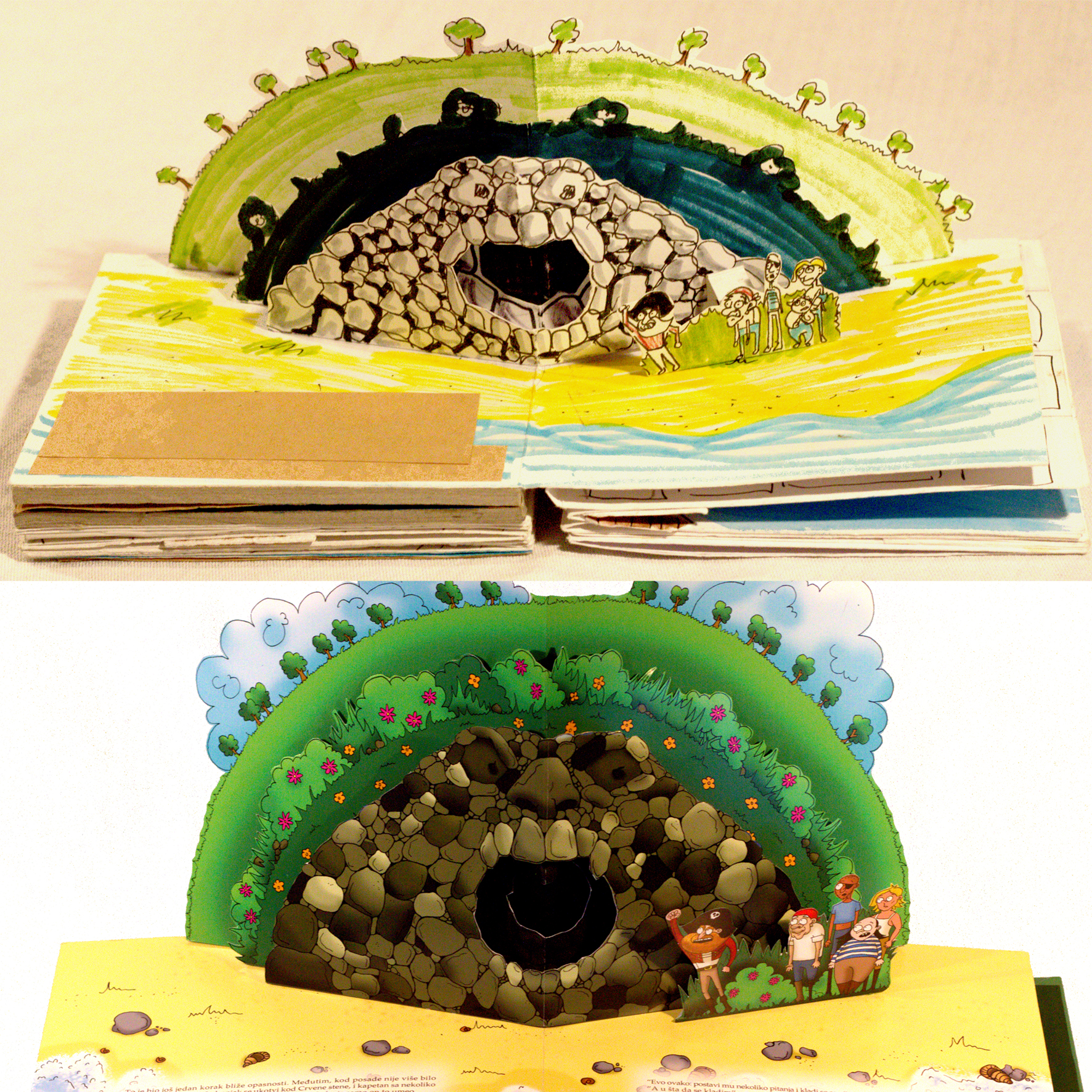 Pop-up books - from idea to realization.